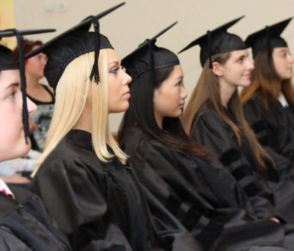 The McDaniel College Budapest Graduates in 2014